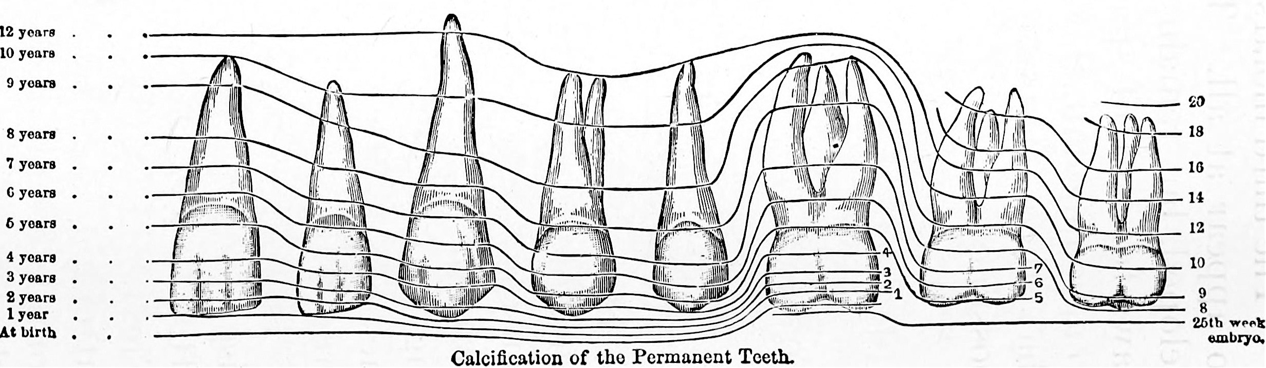 Modified file